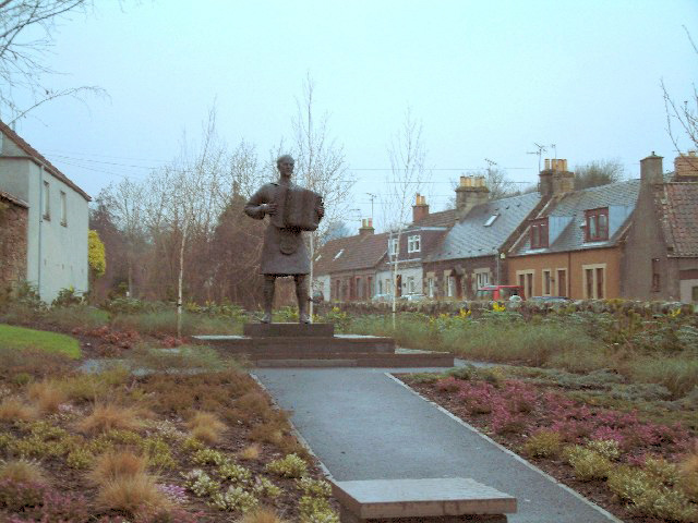 Jimmy Shand sculpture, Auchtermuchty, Fife; life-size bronze by David Annand of Kilmany, Fife